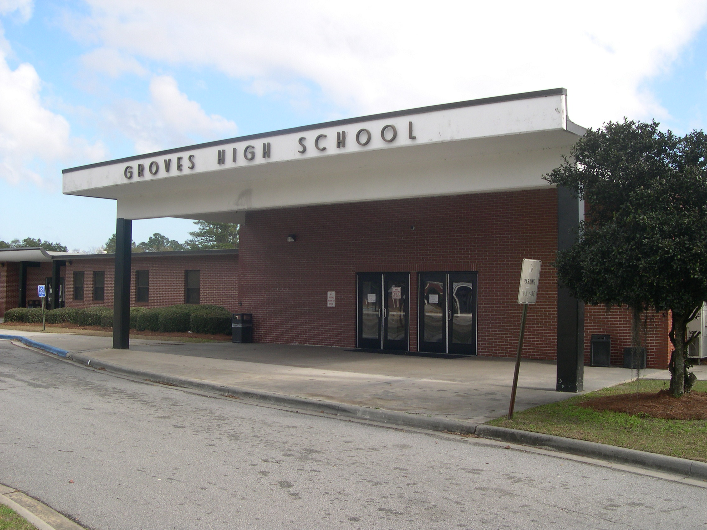 Robert W. Groves High School, located at 100 Wheathill Road, Garden City, Georgia